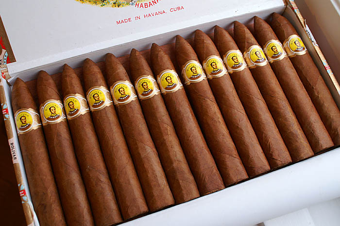 Box of Bolivar Belicosos Finos